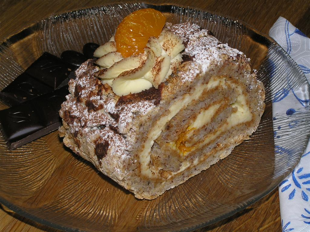 Foto: Bengt Olof Åradsson Bilden får fritt användas This work has been released into the public domain by its author, Bengt Olof Åradsson at the Wikipedia project. This applies worldwide. In case this is not legally possible: Bengt Olof Åradsson grants anyone the right to use this work for any purpose, without any conditions, unless such conditions are required by law.